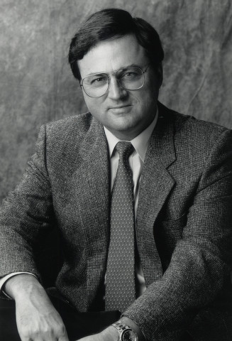 John Moores earned both his bachelor's degree in economics and his law degree from the University of Houston. Along with his wife Rebecca, he has been a frequent donor to the university, having contributed more than $70 million over the years. He was founder and chairman of the board of BMC Software Inc. as well as founder of the River Blindness Foundation, formerly based at UH's School of Optometry. He served on the Board of Regents from 1991-1994 and is also the owner of the San Diego Padres.